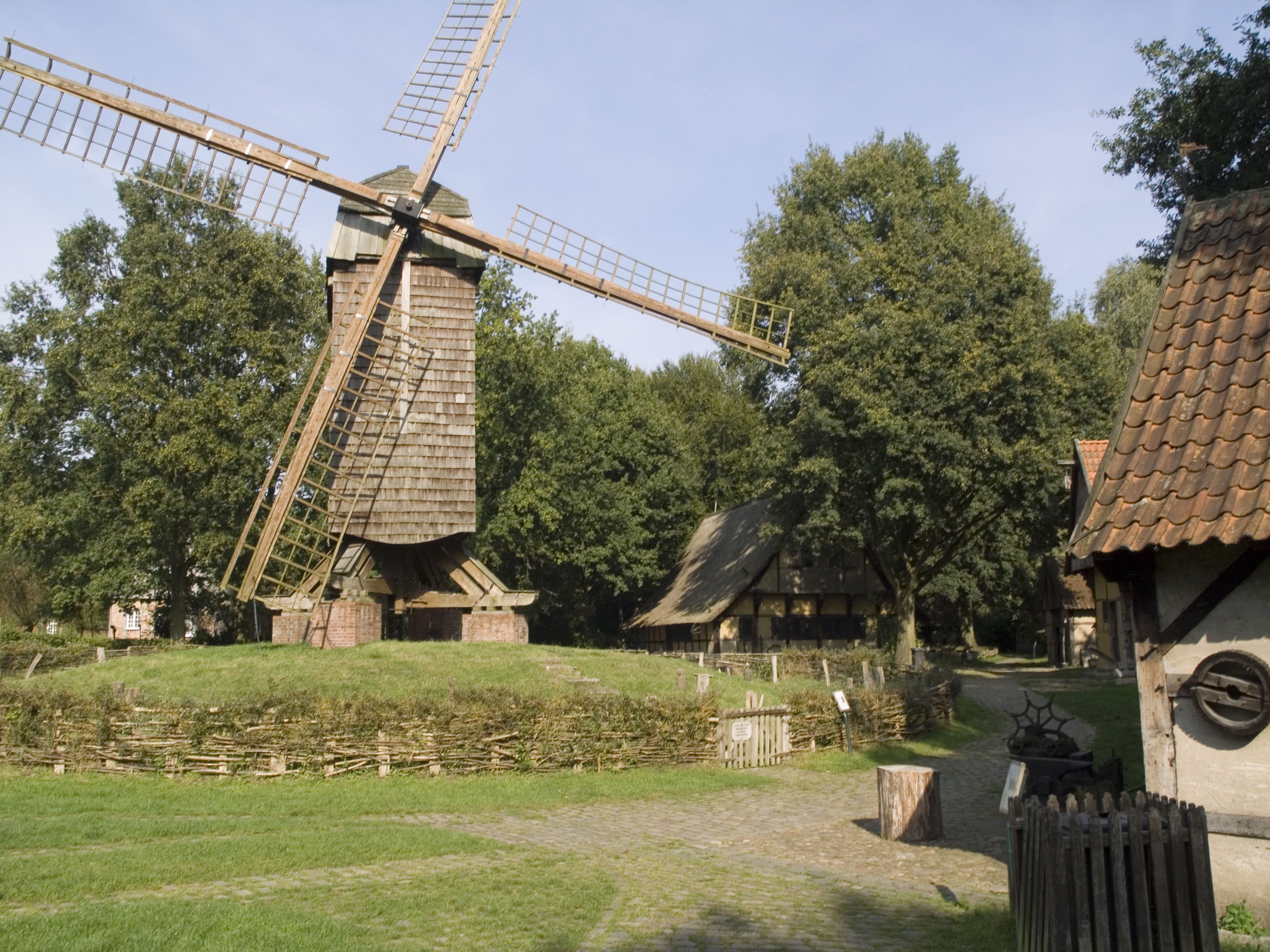 NRW, Munster, Muhlenhof museum